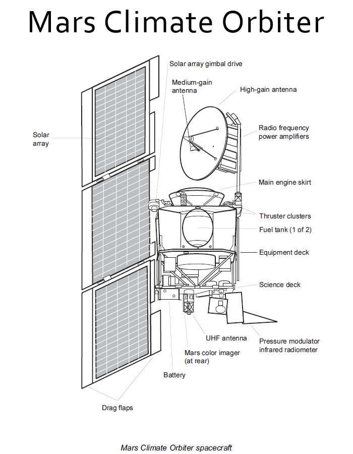 Diagram of Mars Climate orbiter with important sections labeled.